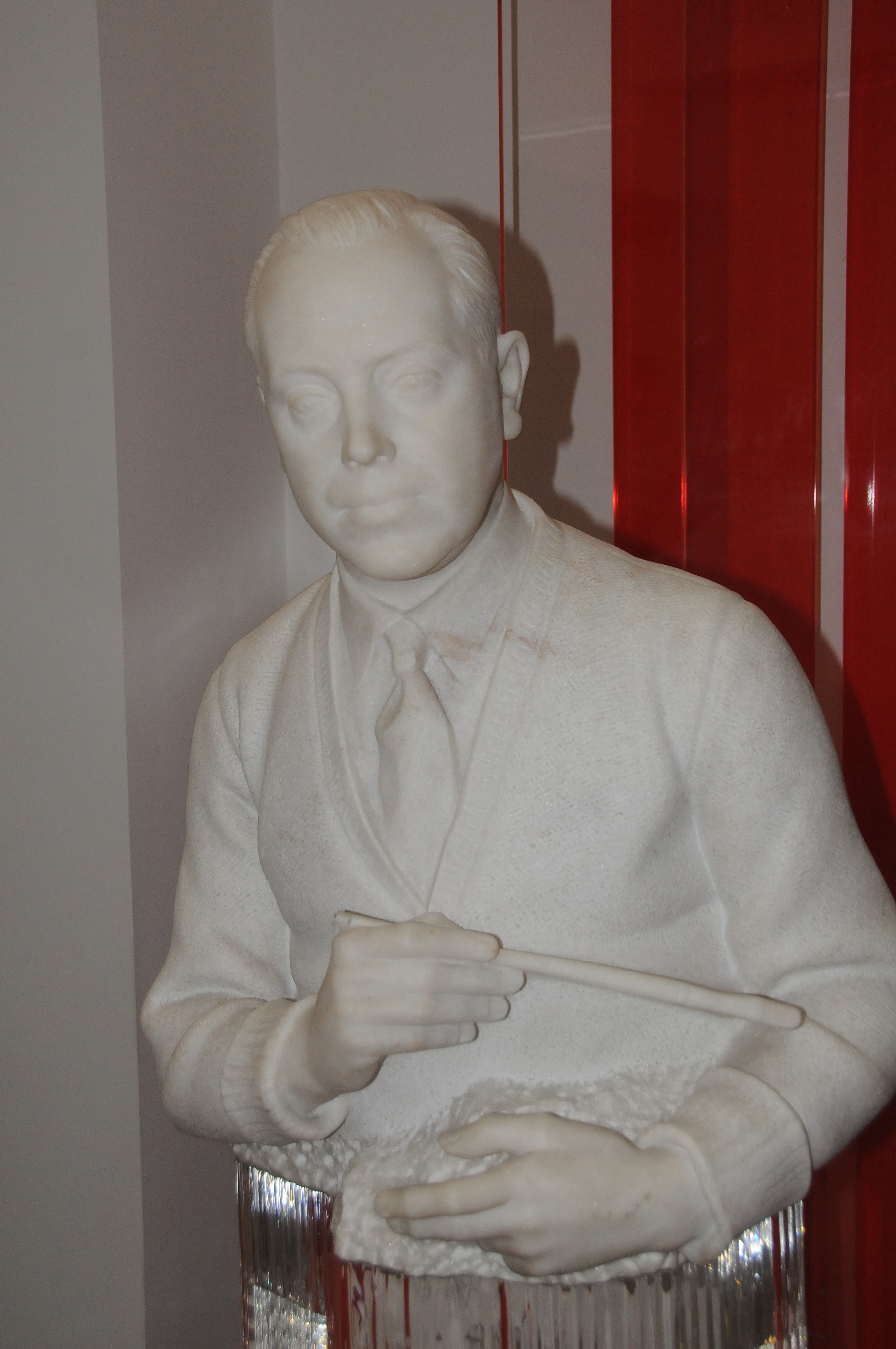 Pius XII Museum in Braga, Portugal.